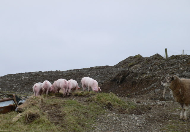 Five little piggies Not usual to see pigs on Welsh upland farms. These ones are at hafod Ifan.